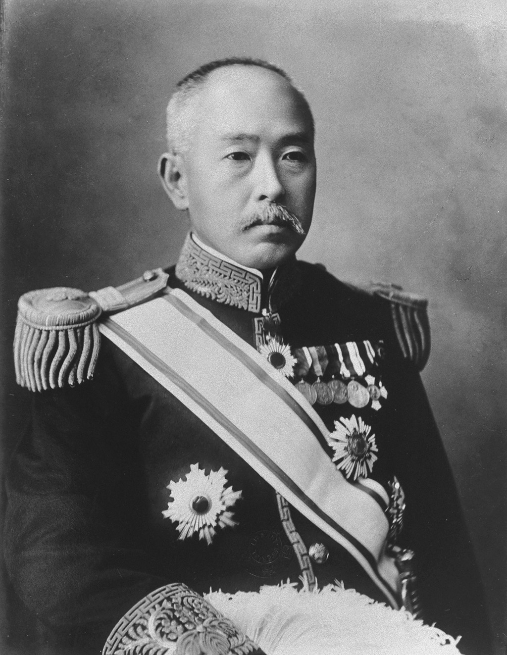 Portrait of Kuroda Nagashige (黒田長成, 1867 – 1939)